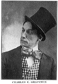 Vaudeville character comedian Charles E. Grapewin in a top hat, for a sketch titled "Above the Limit".